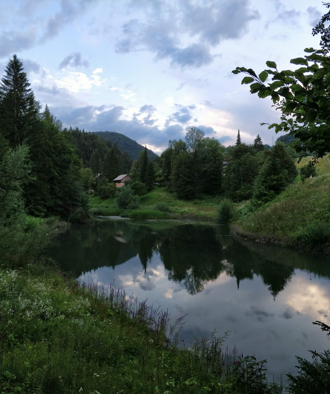 Stara Sušica, Croatia Srpskohrvatski / српскохрватски: Jezerce u Staroj Sušici